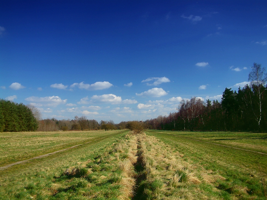 Horse training track in Neuenhagen bei Berlin